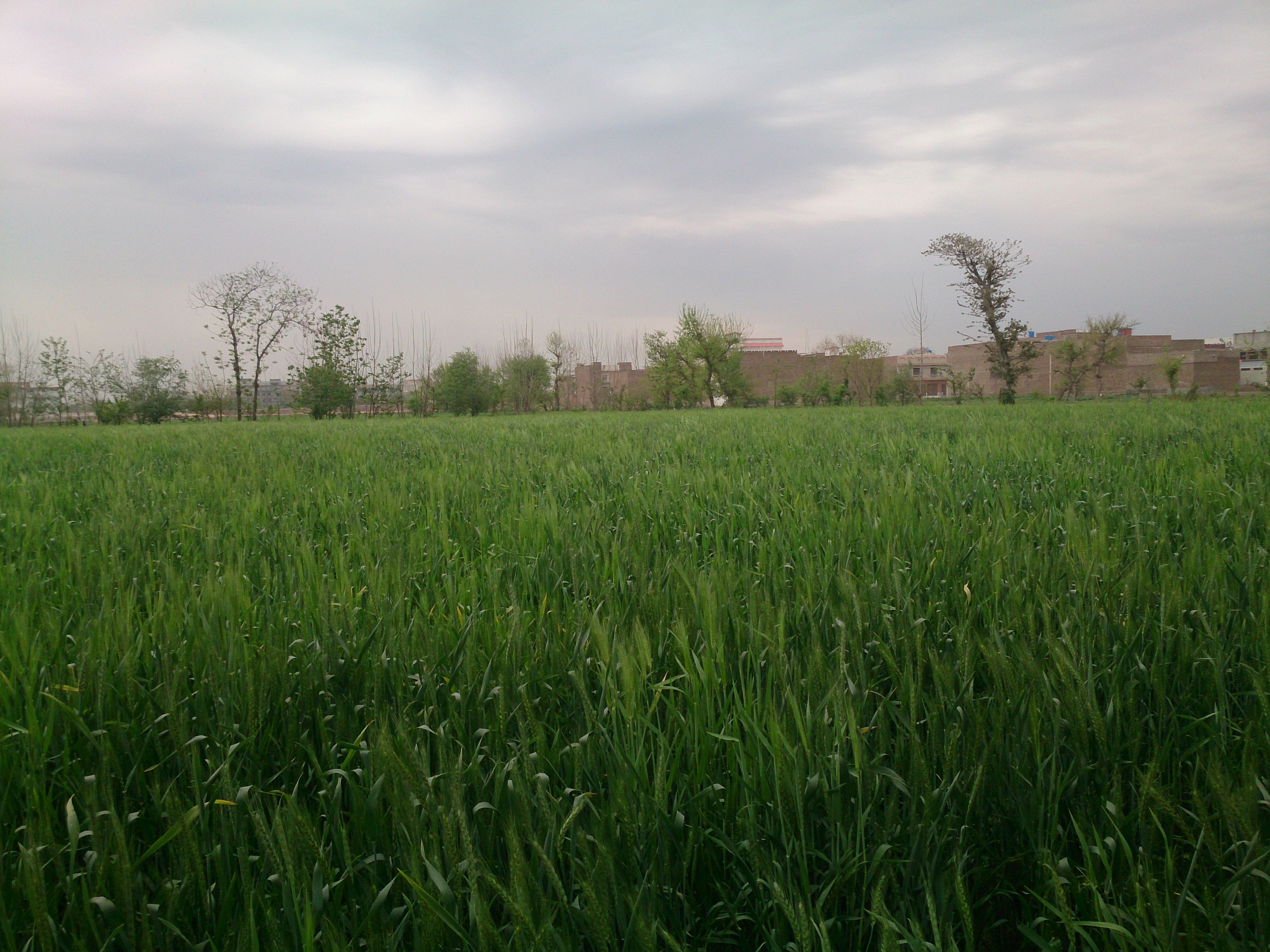 Peshawar District, Pakistan